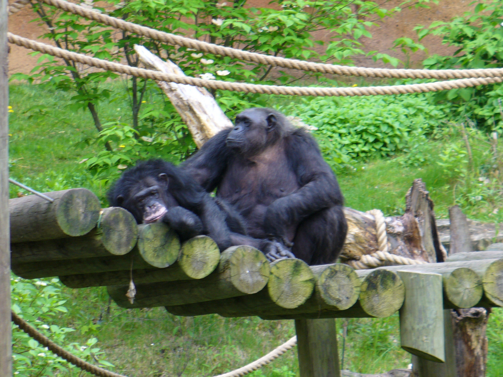 Chimpanzees in Mokomboso Valley exhibit at John Ball Zoo, in Grand Rapids, Michigan.